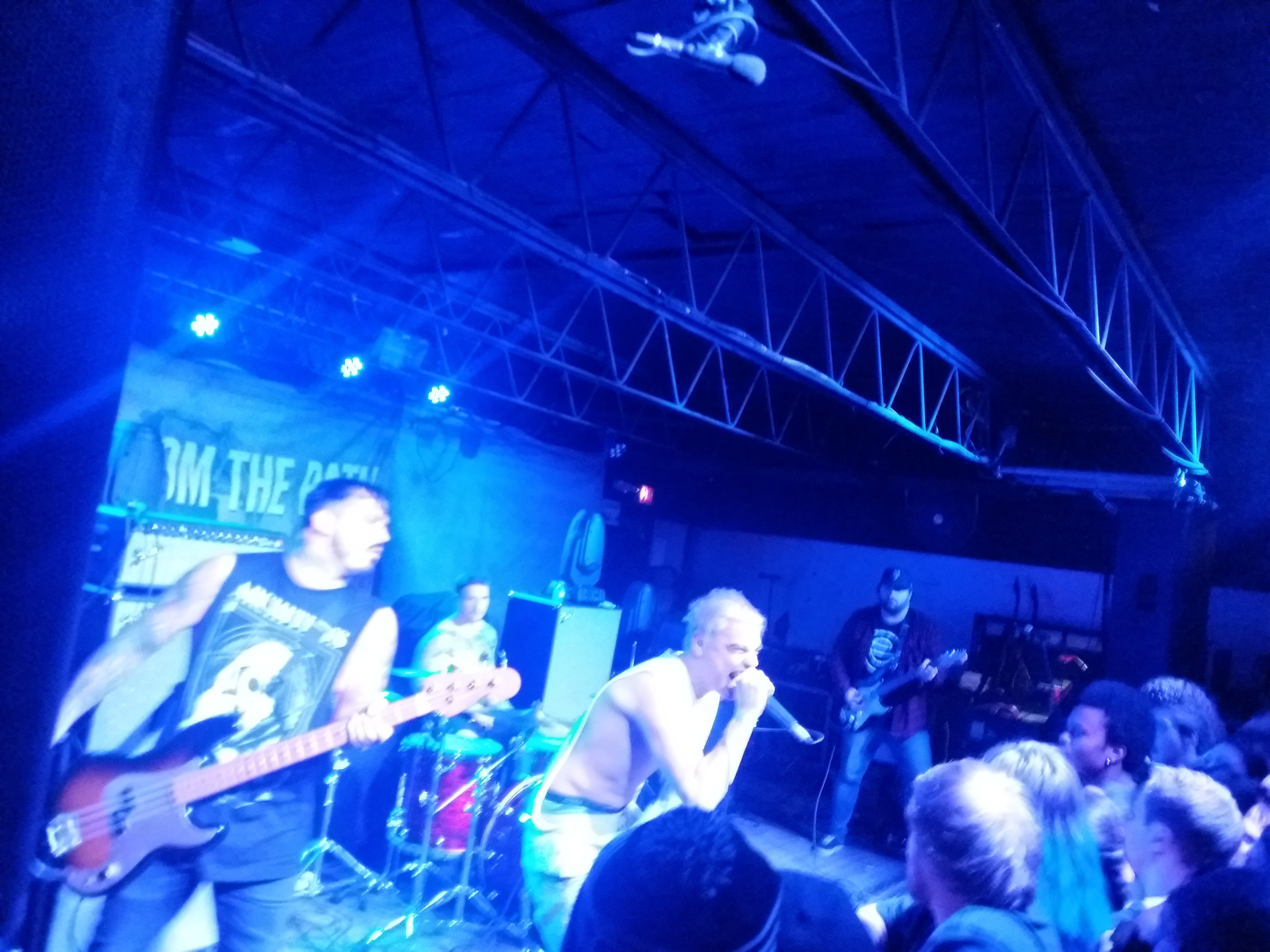 Stray from the Path, Make them Suffer 3